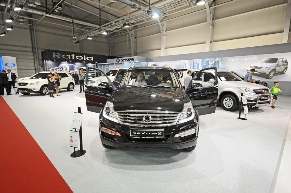 Премиера на Rexton W в България